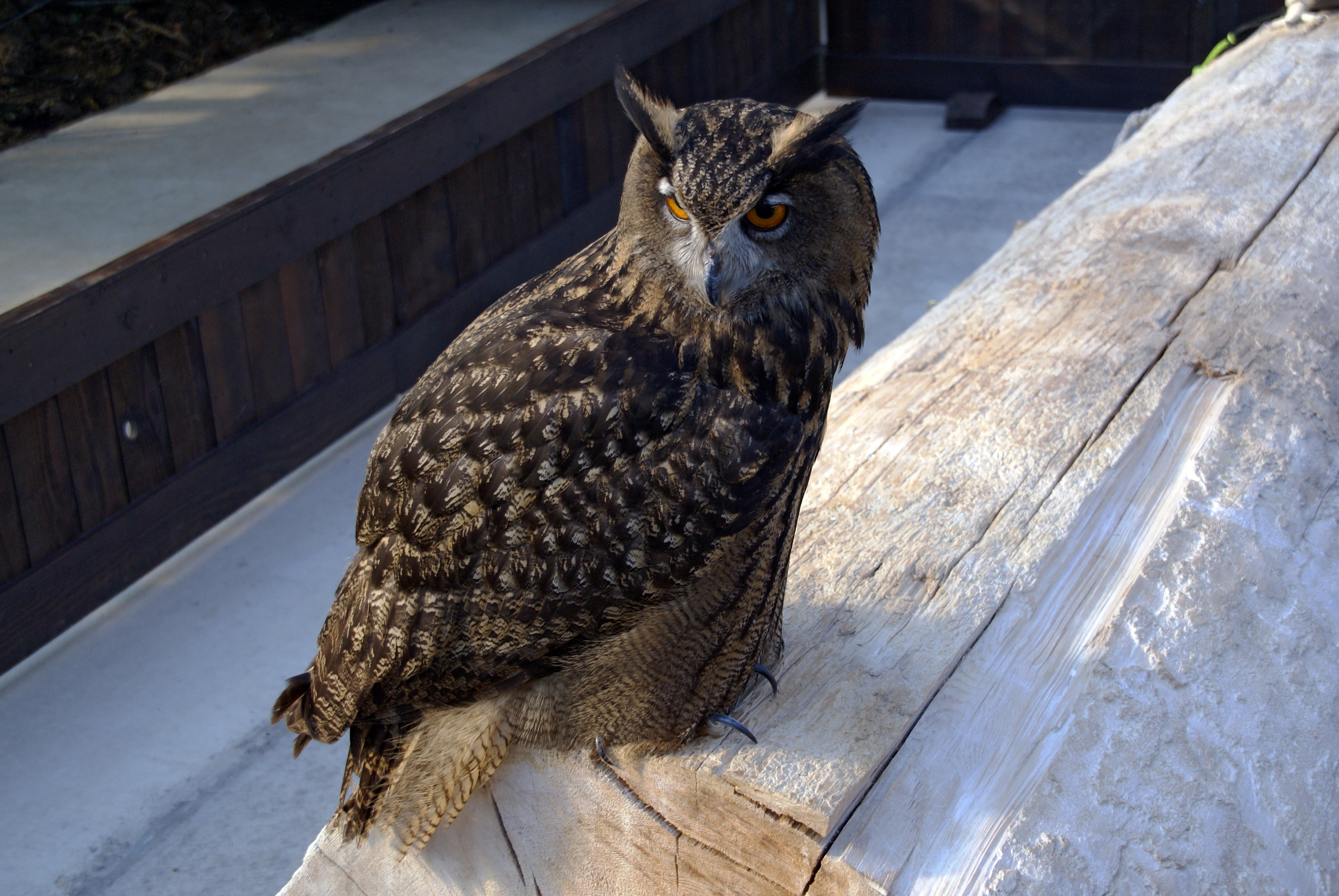 Kobe Kachoen (Kobe Flowers and Birds Garden) in Kobe, Hyogo prefecture, Japan